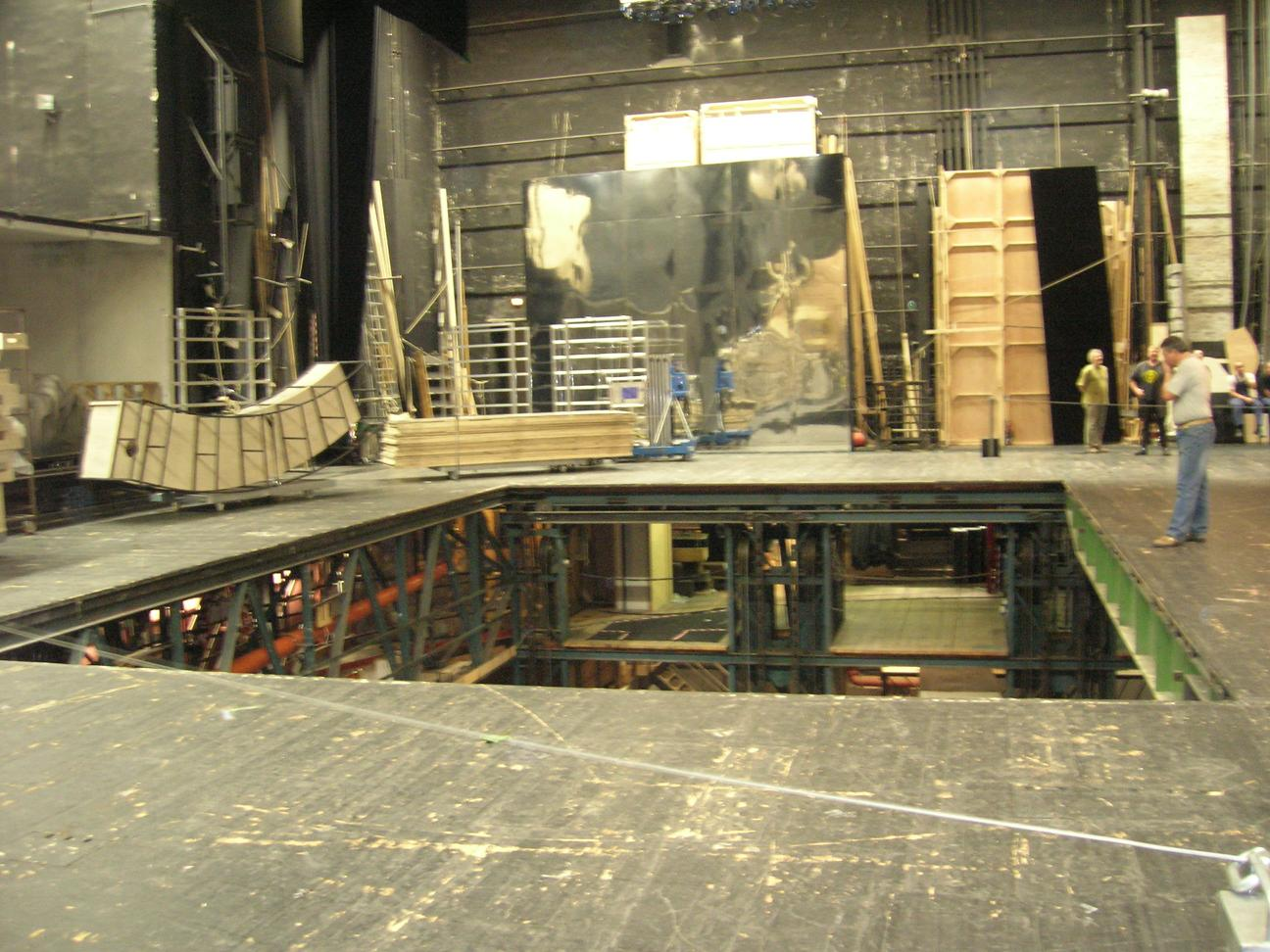 the stage of the Burgtheater/Vienna